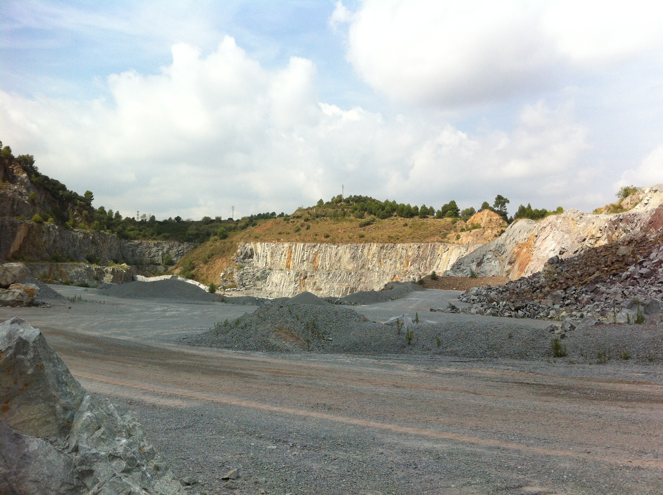 Berta Quarry, El Papiol, Barcelona, Catalonia